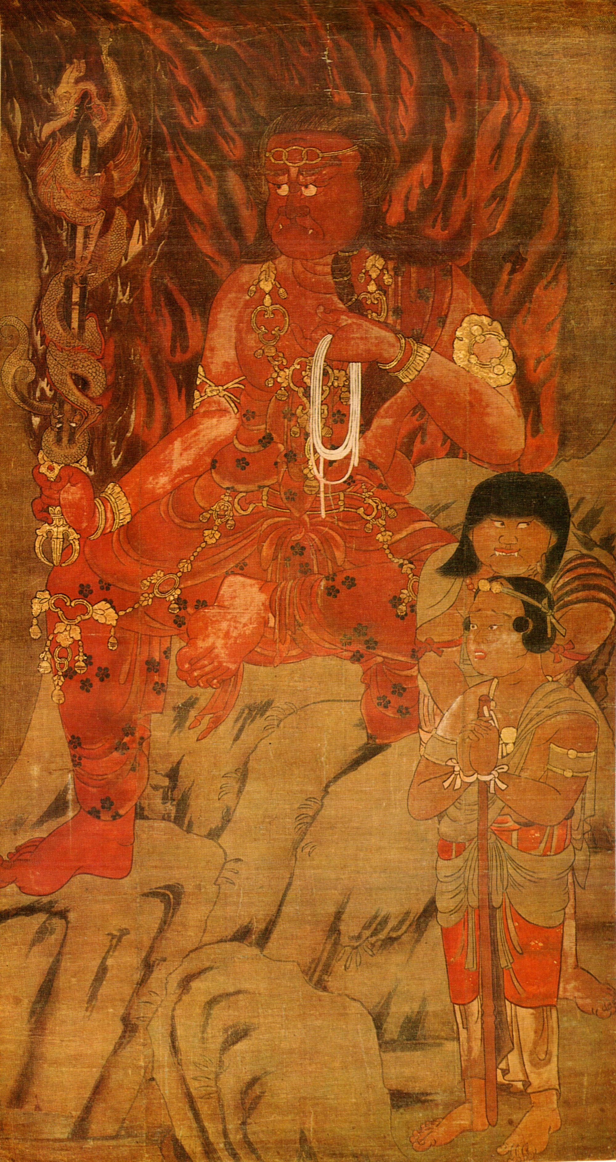 Aka-Fudō (赤不動, Red Acala-nātha) Color on silk. Height:180.4cm, Width:95.6cm. late Heian to early Kamakura Era. owned by Myō'ōin(明王院) Temple.